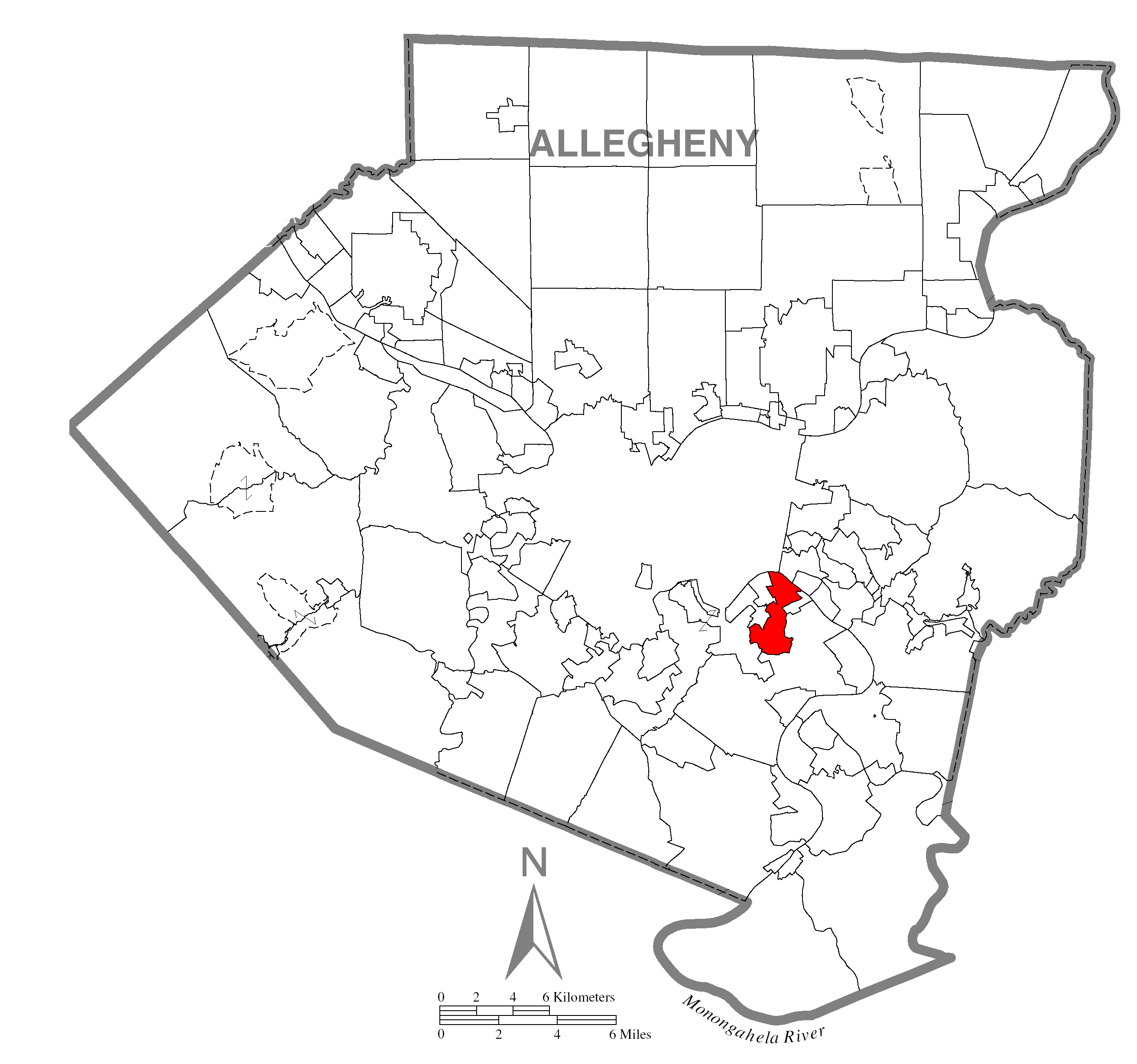 A map of Allegheny County showing Munhall, Pennsylvania (alternate) highlighted on the map.